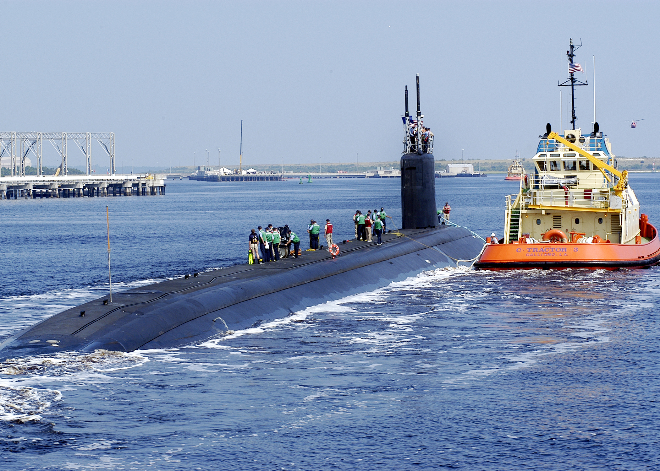 Kings Bay, Ga. (Aug. 12, 2005) - The Sea Wolf-class attack submarine USS Jimmy Carter (SSN 23) departs Naval Submarine Base Kings Bay for a one-night underway that included an embark by former President Jimmy Carter and his wife Rosalynn. USS Jimmy Carter is the third Sea Wolf-class attack submarine. U.S. Navy photo by Photographer's Mate 2nd Class Elizabeth Williams (RELEASED)